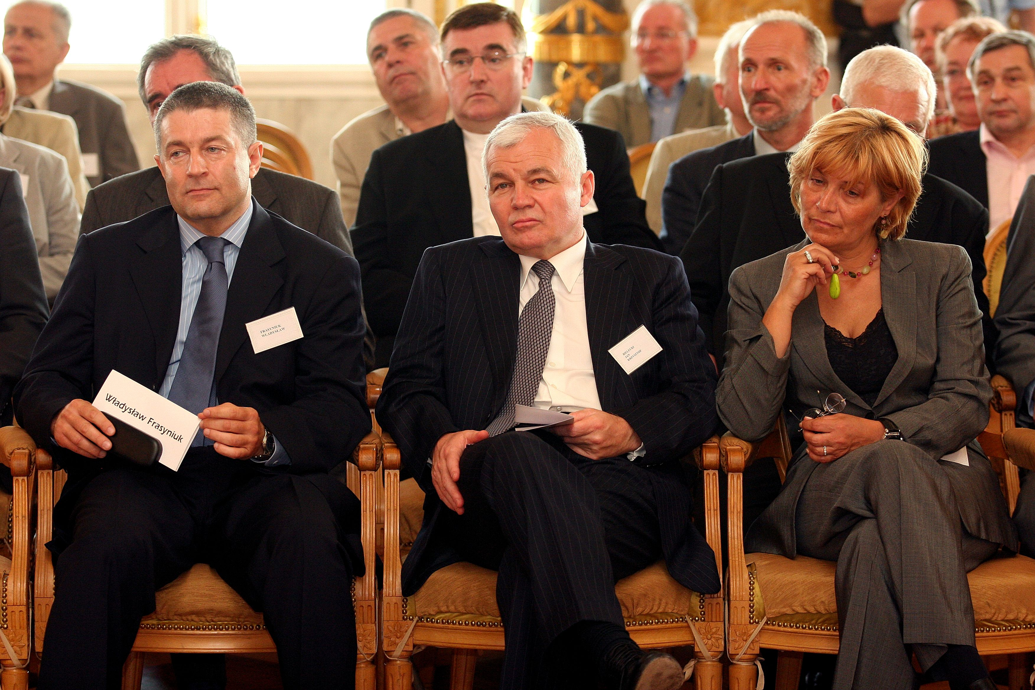 Conference commemorating 25th anniversary of establishing NSZZ "Solidarność" Provisional Coordination Committee at the Royal Castle in Warsaw